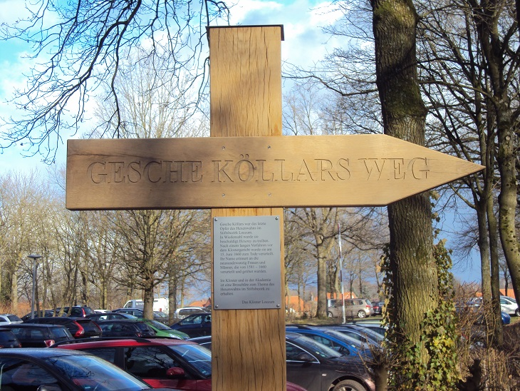 Loccum Gesche Köllarsweg 2016